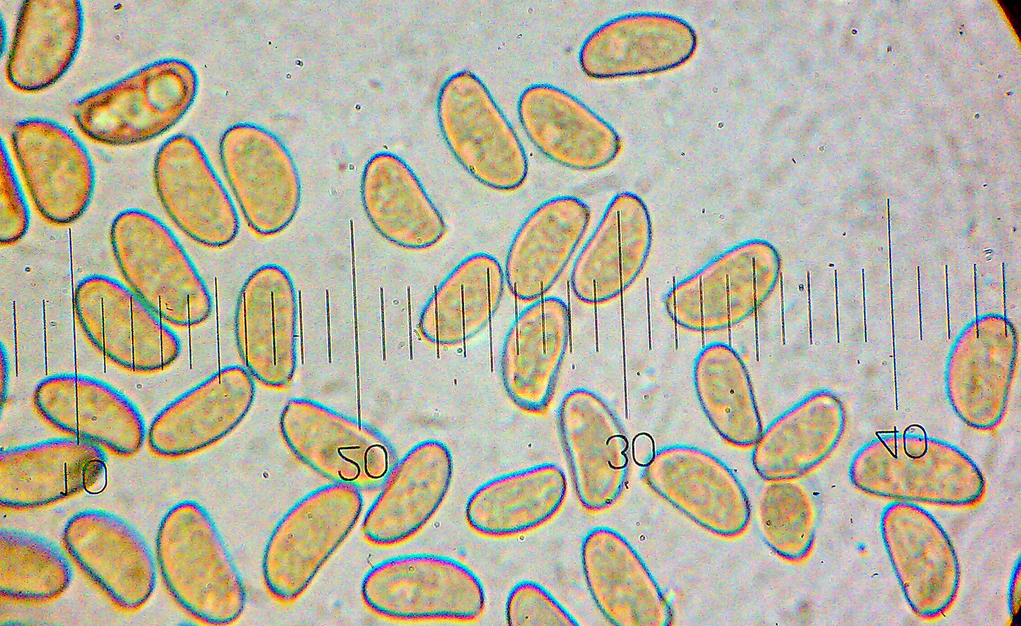 Inocybe calamistrata (Fr.) Gillet Image location: Oxford Co., Maine, USA spores um 11.80 × 6.18 11.69 × 6.05 11.14 × 5.34 11.00 × 4.83 10.85 × 5.42 Recognized by sight: Blue at the base of the stem, smelled like “fish” For more information about this, see the observation page at Mushroom Observer.